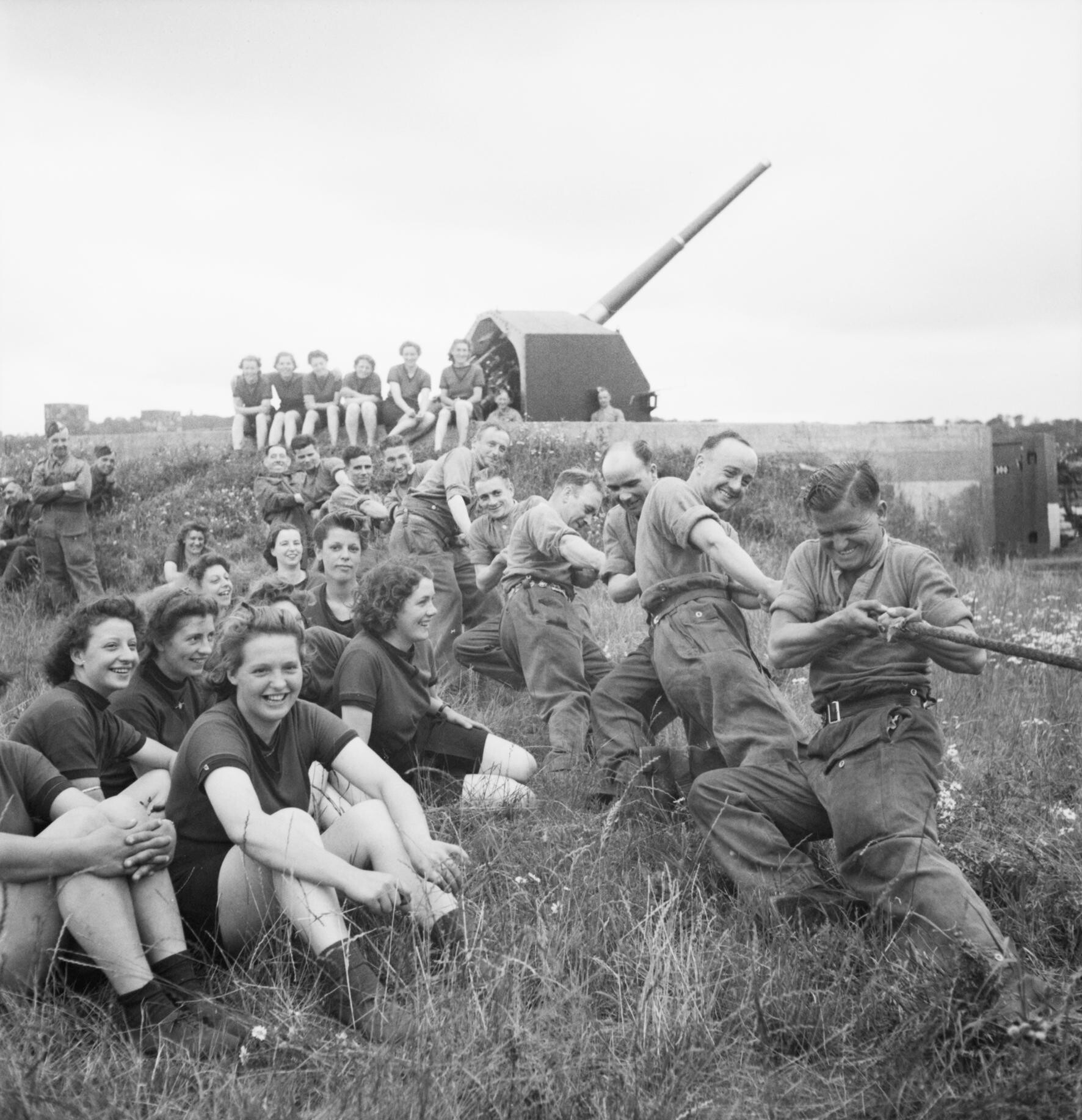 Auxiliary Territorial Service (ATS) girls watch a tug-of-war contest during a sports competition at a mixed 4.5-inch anti-aircraft battery near Edinburgh, 30 July 1943. ATS girls watch a tug-of-war contest during a sports competition at a mixed 4.5-inch anti-aircraft battery near Edinburgh, 30 July 1943.